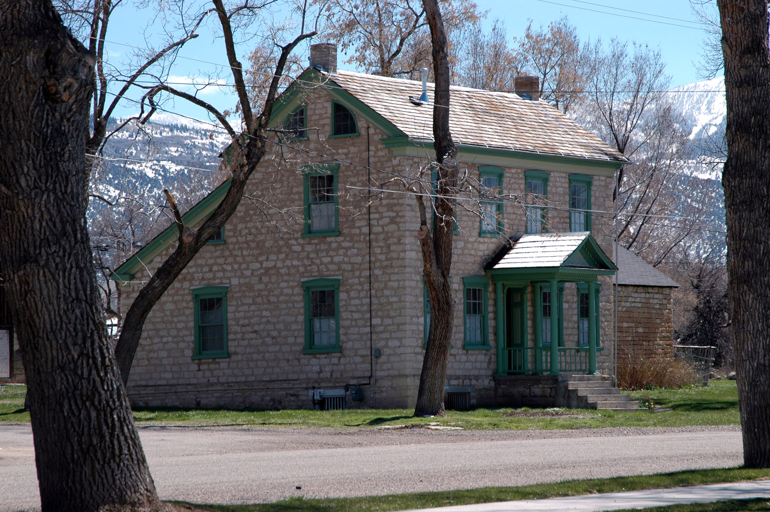 Example of pioneer house in Spring City, Utah. Nikon D70, April 2005, Cory Maylett